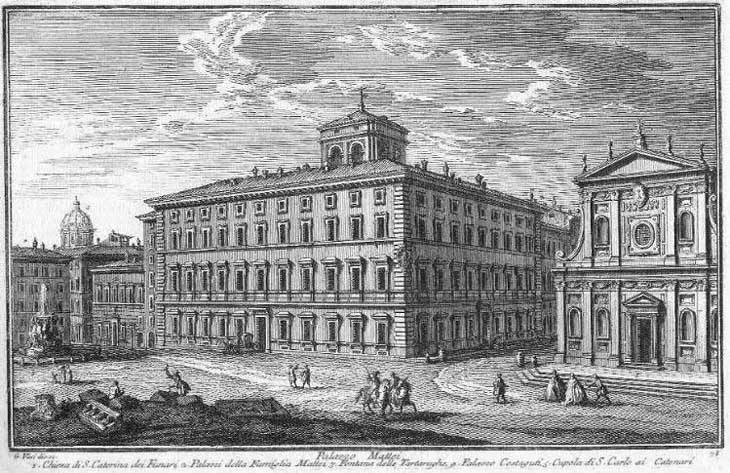 1) S. Caterina de' Funari; 2) Palazzi della famiglia Mattei; 3) Fontana delle Tartarughe; 4) Palazzo Costaguti; 5) Dome of S. Carlo ai Catinari.